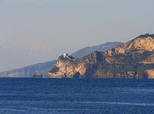 Private photo taken and uploaded by user Jeffmatt 05:17, 5 November 2006 (UTC)